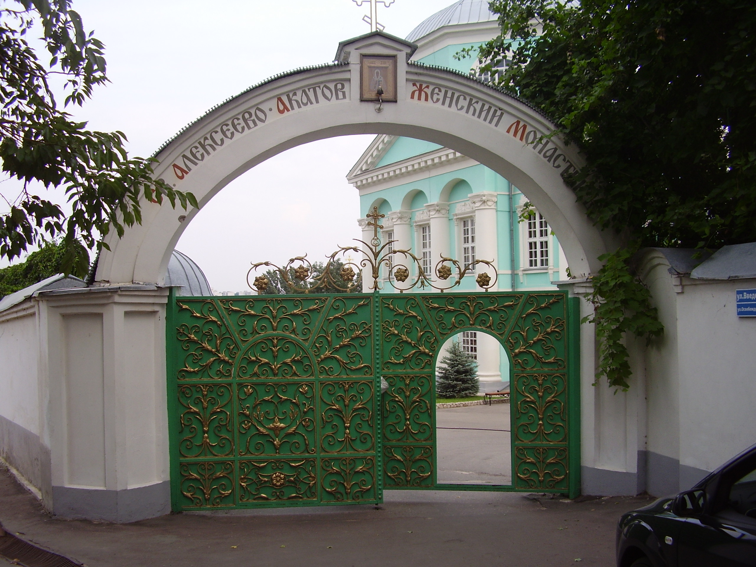 Воронеж,ворота_Алексеево-Акатова_монастыря